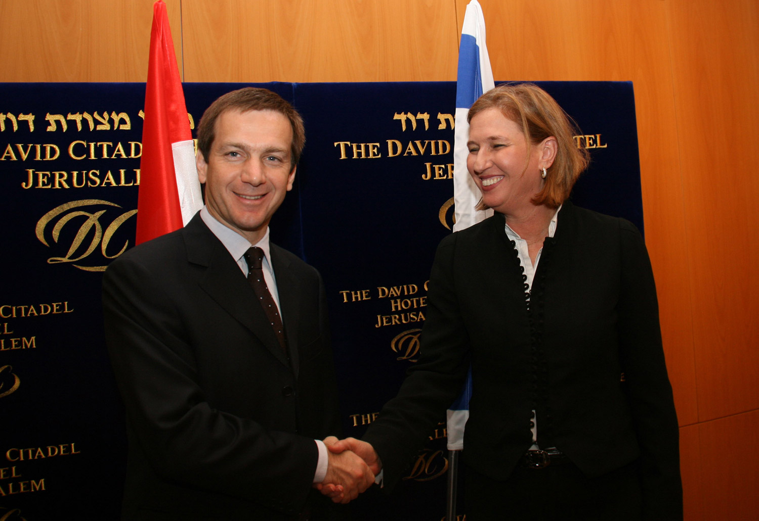 Israel Opposition Leader, Tzipi Livni and the Hungarian Prime Minister, Gordon_Bajnai, Jerusalem.